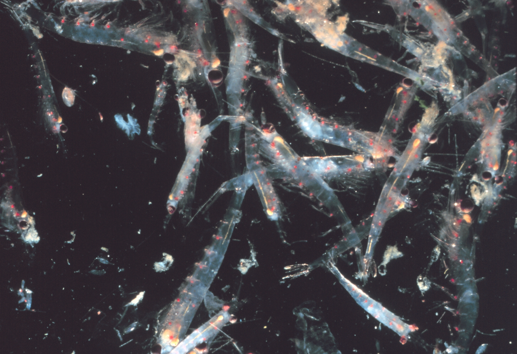 Many krill. Photo taken in the Gulf of the Farallones.